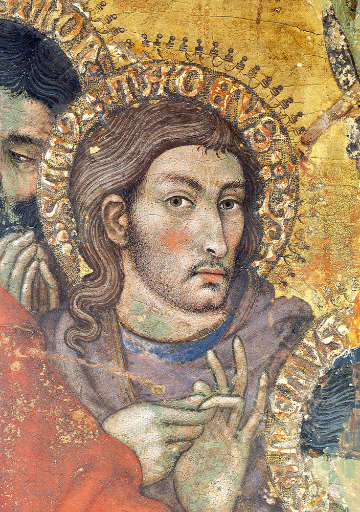 Self portrait as St Thaddeus, detail of the altar